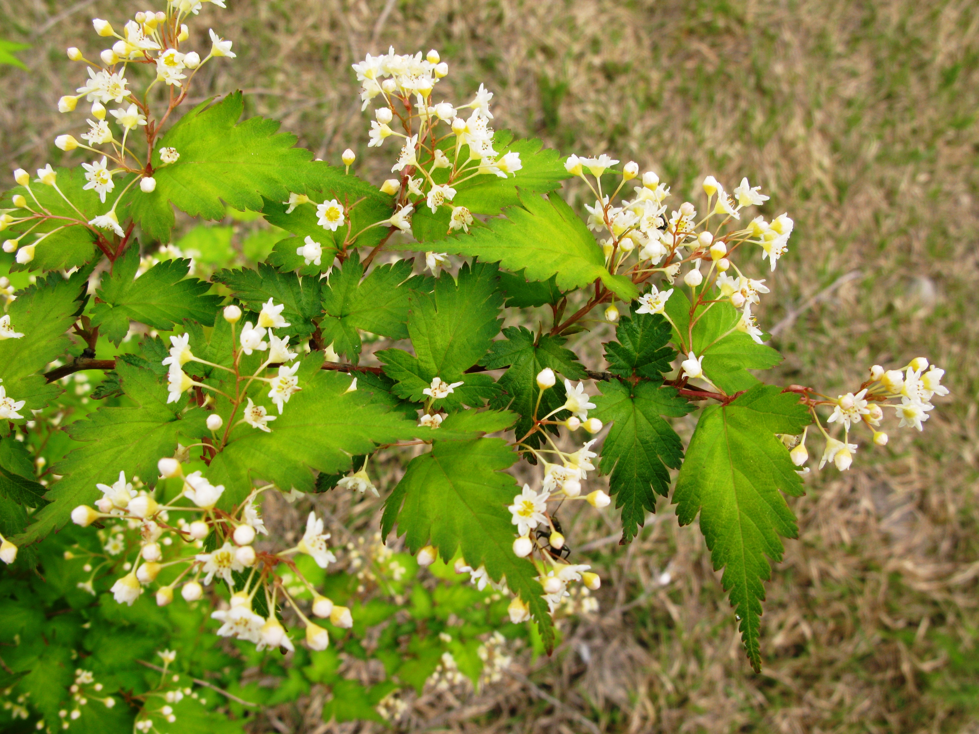 Stephanandra incisa, Aizu area, Fukushima pref., Japan